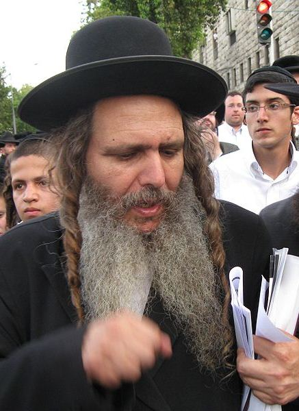 Rabbi Shalom Arush (left) after speaking at a tzniut rally in Jerusalem.